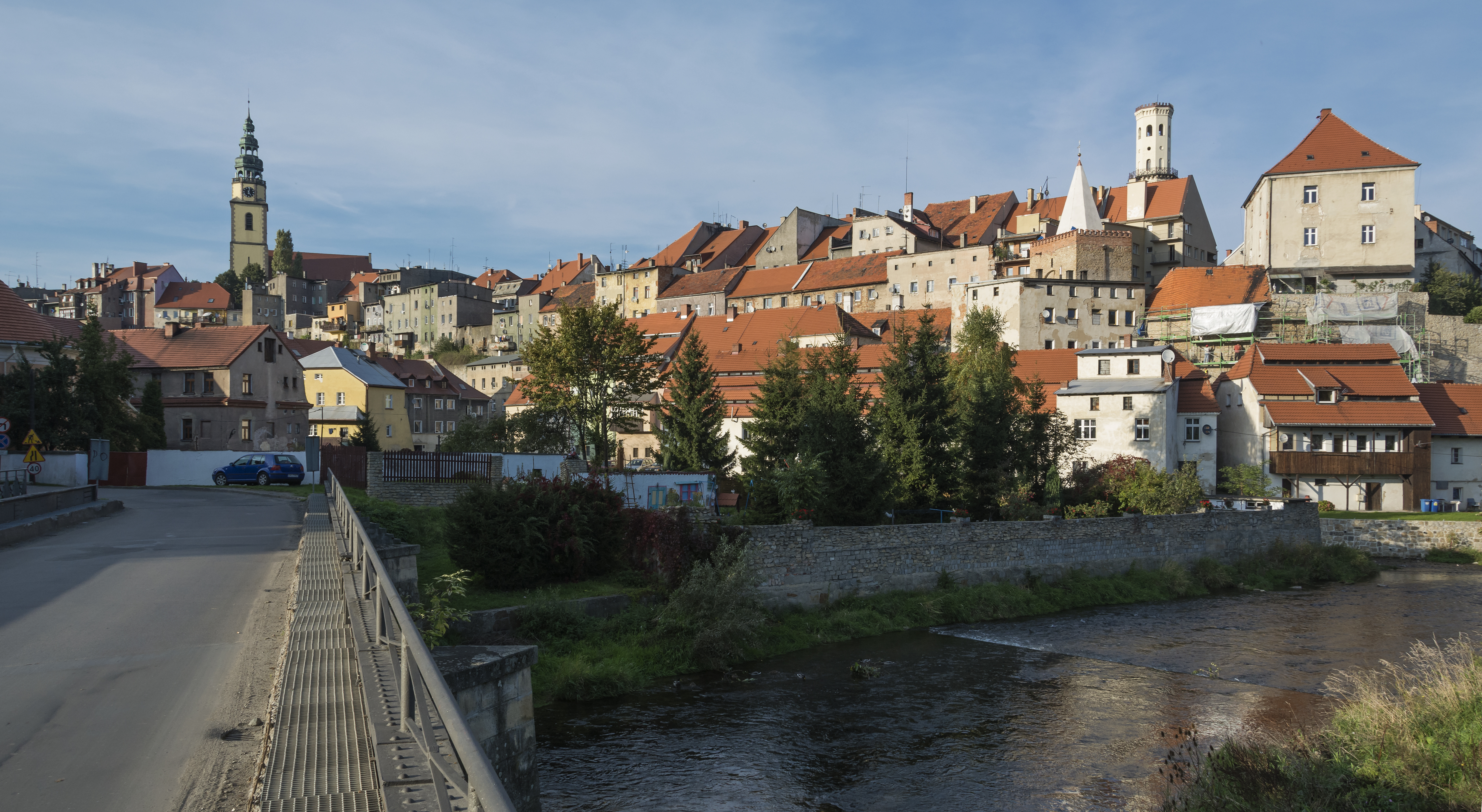 Historic centre of Bystrzyca Kłodzka